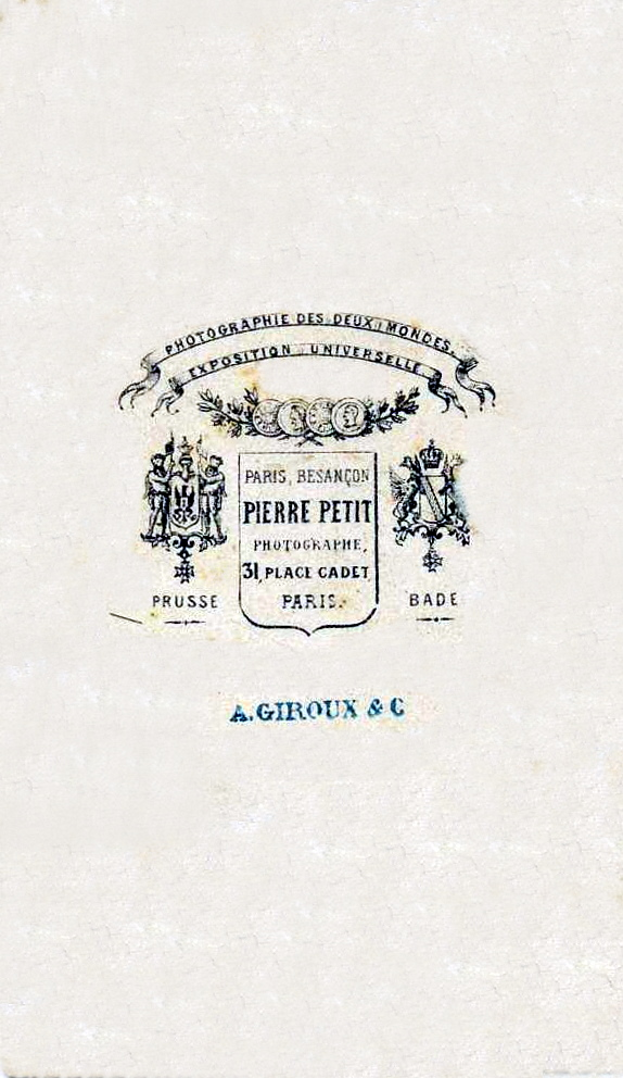 Pierre Petit (1832-1909) - Trademark. Recto Verso Verso (cropped)